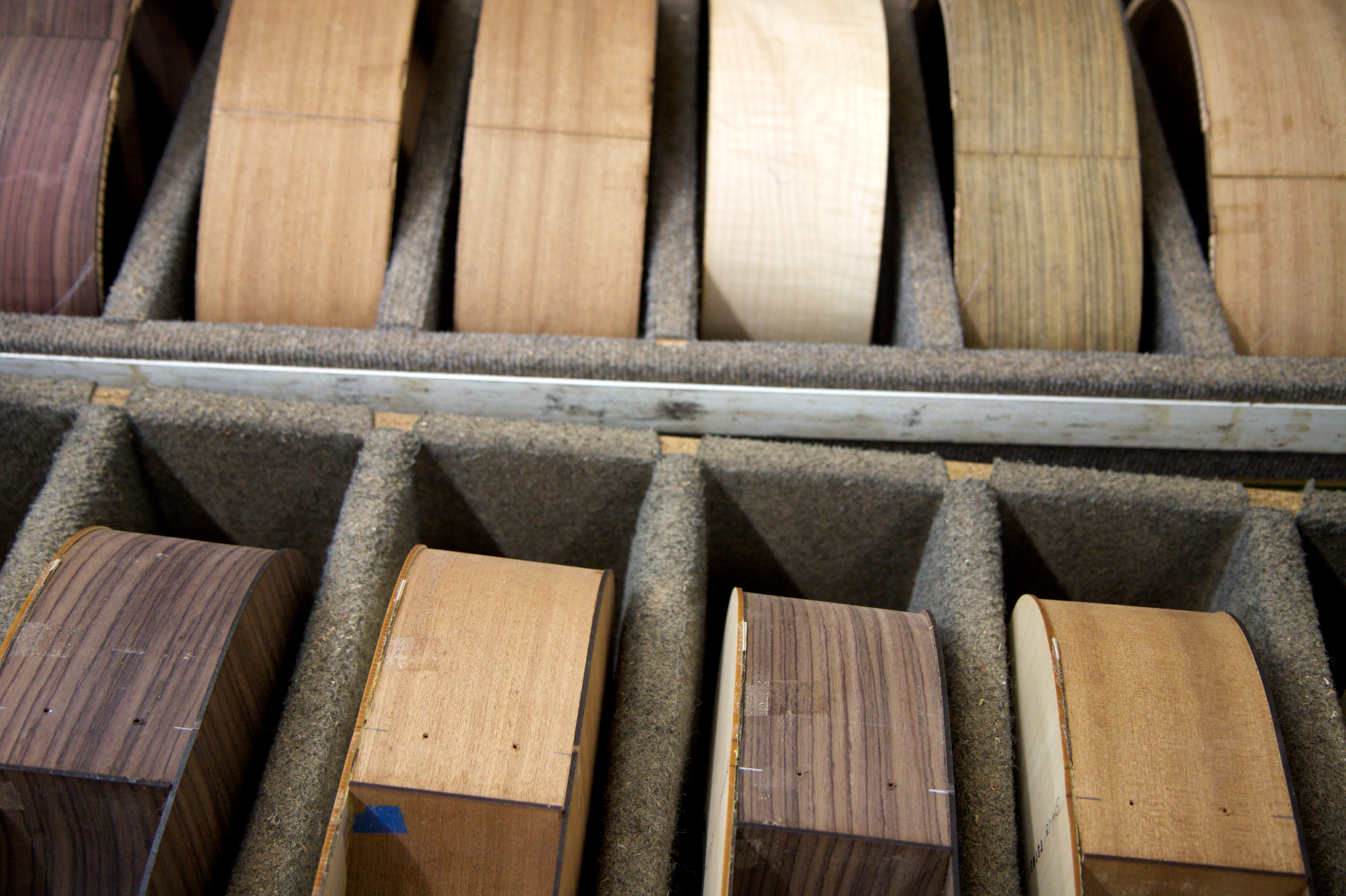 TGFT34 side woods - Taylor Guitar Factory